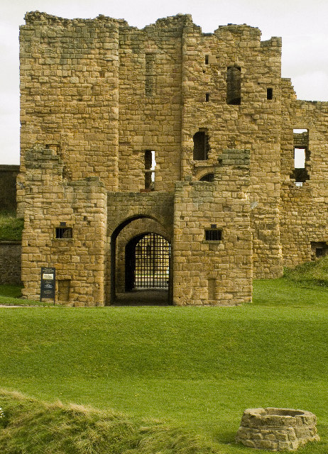 Tynemouth Priory. Tynemouth Priory viewed from the coast road